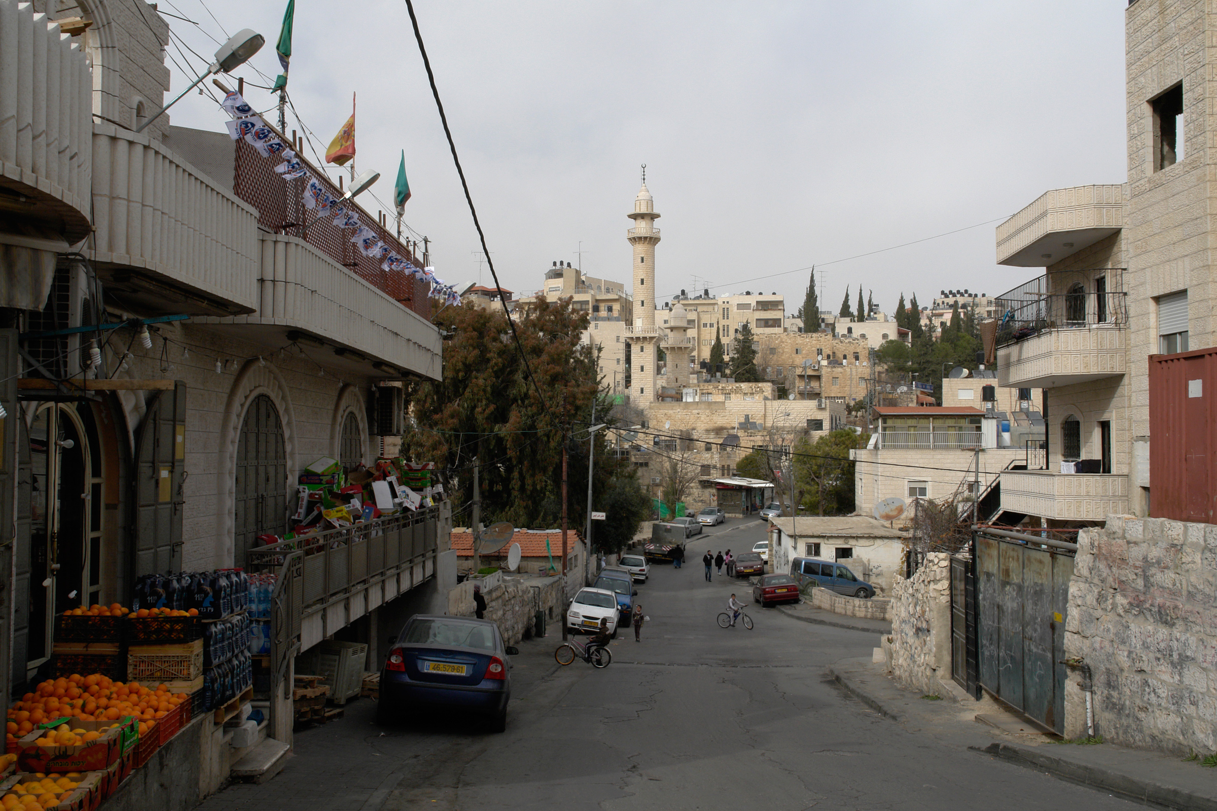 Wadi al-Joz